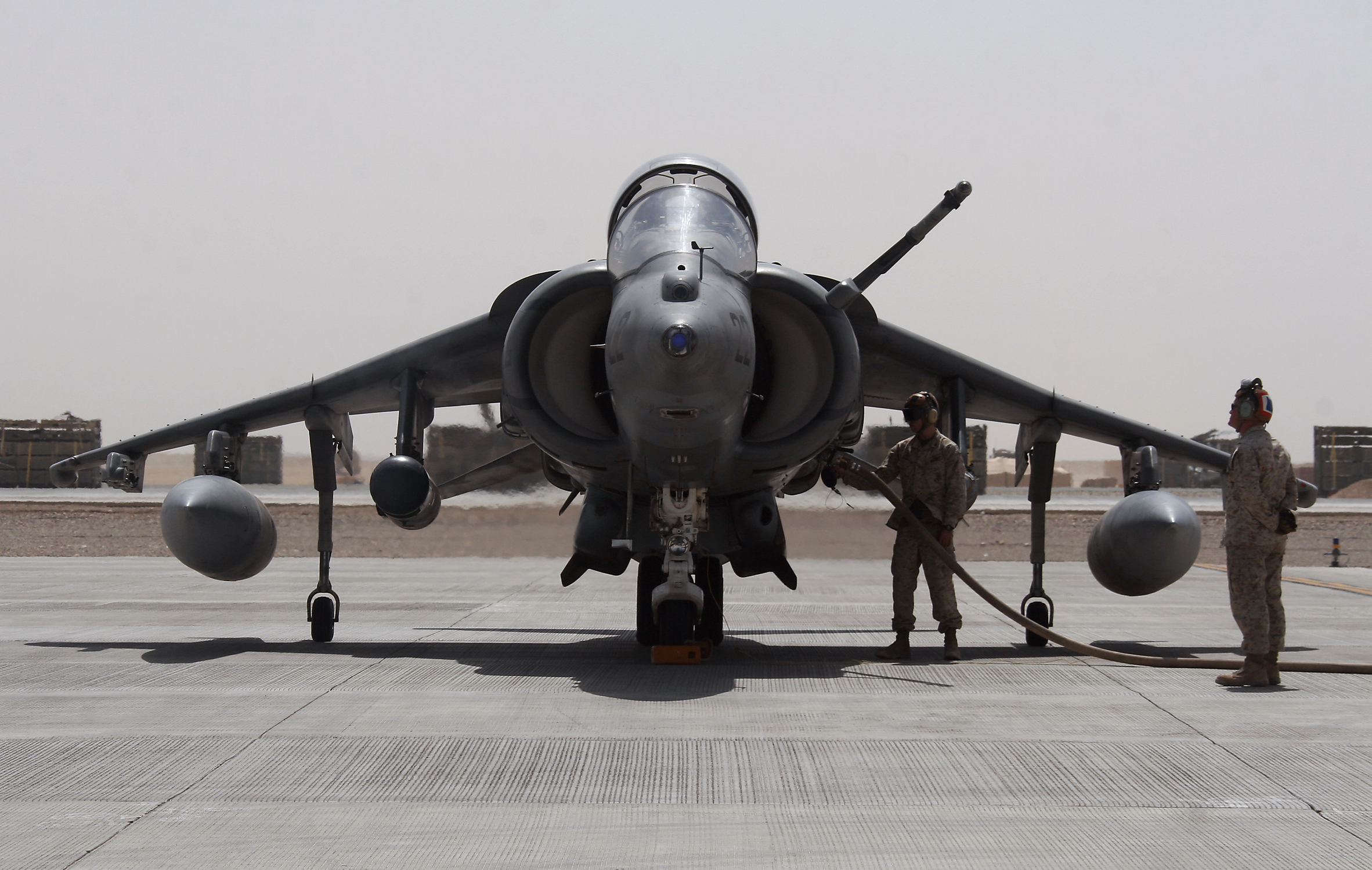 Marine Attack Squadron 214 "Black Sheep," Marine Aircraft Group 40, 2nd Marine Expeditionary Brigade - Afghanistan Marines pump fuel into an AV-8B Harrier during a test on the squadron's ability to perform rapid ground refueling at forward operating bases.